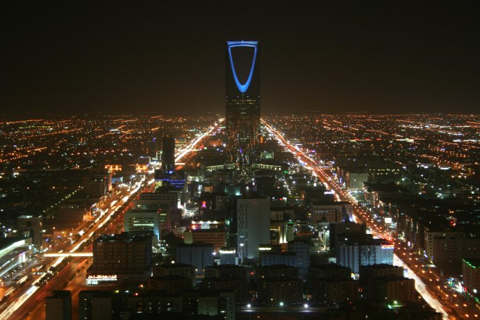 Kingdom Centre, Riyadh, Saudi Arabia. Taken by BroadArrow in 2007.